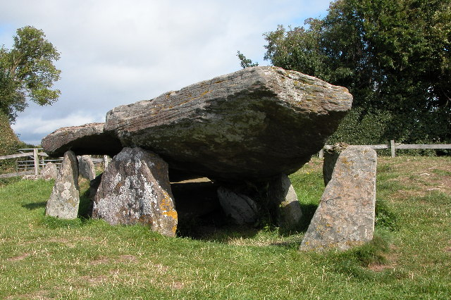 Arthur's Stone. The remains of a Neolithic chambered tomb. It is named after King Arthur but it pre-dates this legendary king by thousands of years. It is thought to date from between 3,700BC and 2,700BC. It is situated almost 1000ft up on top of a hill between Bredwardine and Dorstone.